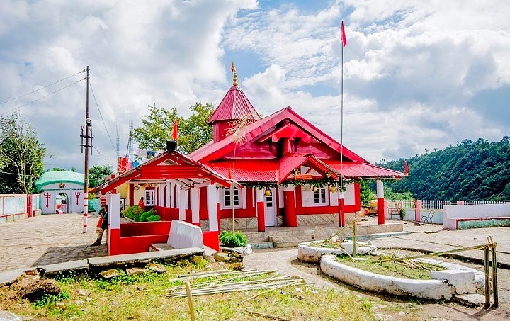 Nartiang Durga temple, Shakti peethas in Meghalaya